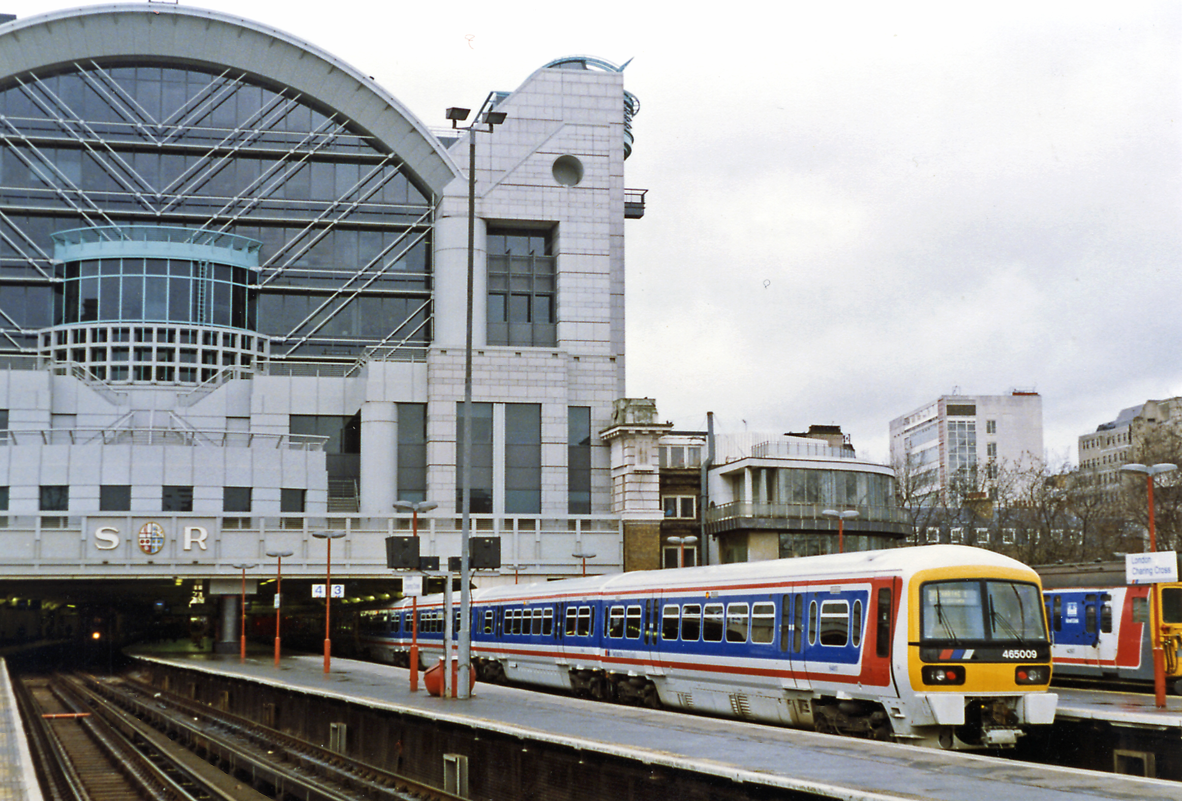 Charing Cross station, with new Networker EMU. View NW, towards buffer-stops: ex-SE&CR West End terminus - recently rebuilt with Embankment Place office block over it. A new Class 465 Networker train is at Platform 6.